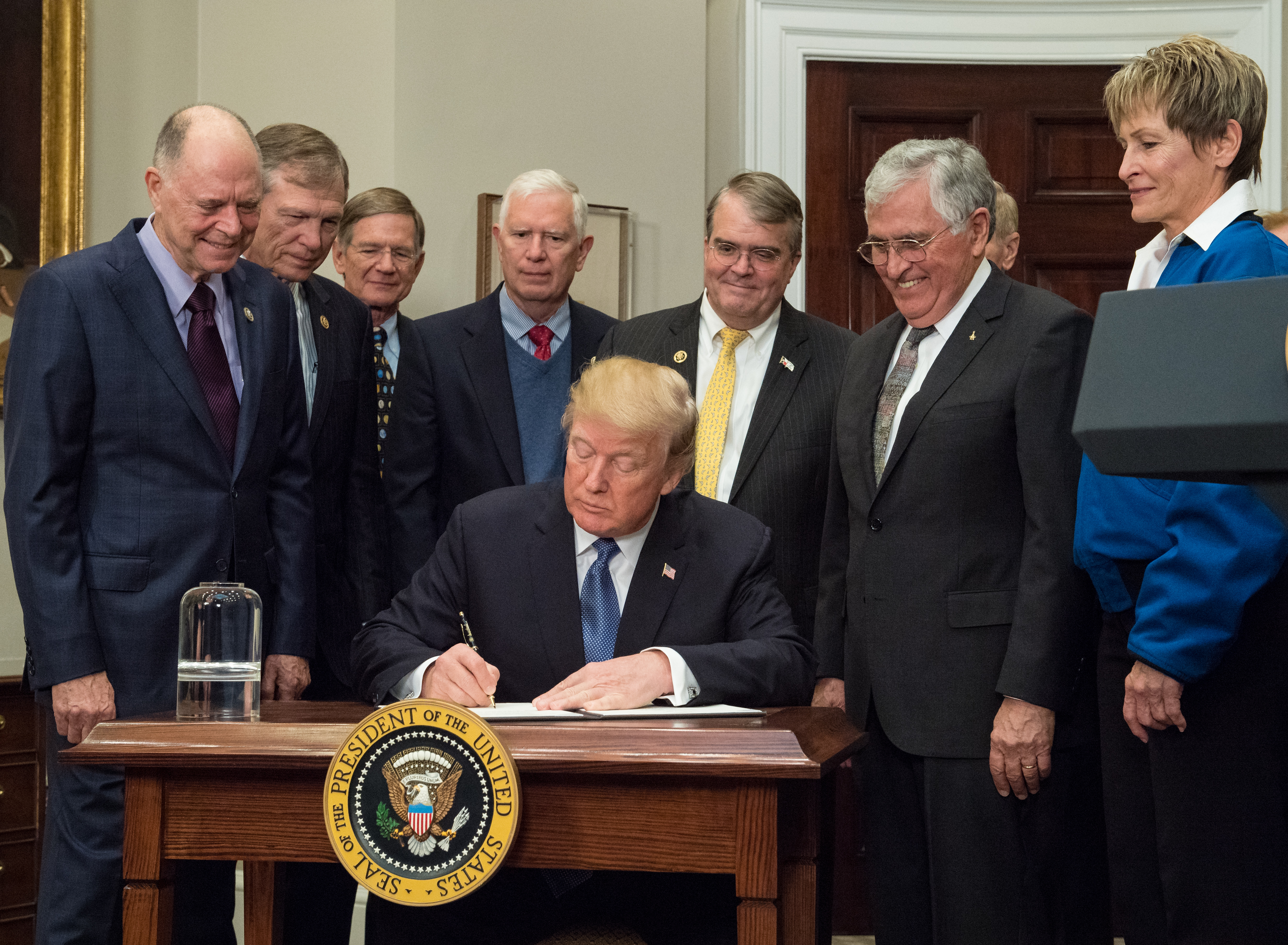 President Donald Trump signs the Presidential Space Directive - 1, directing NASA to return to the moon, alongside members of the Senate, Congress, NASA, and commercial space companies in the Roosevelt room of the White House in Washington, Monday, Dec. 11, 2017. Present are Harrison Schmitt and Peggy Whitson on the right.